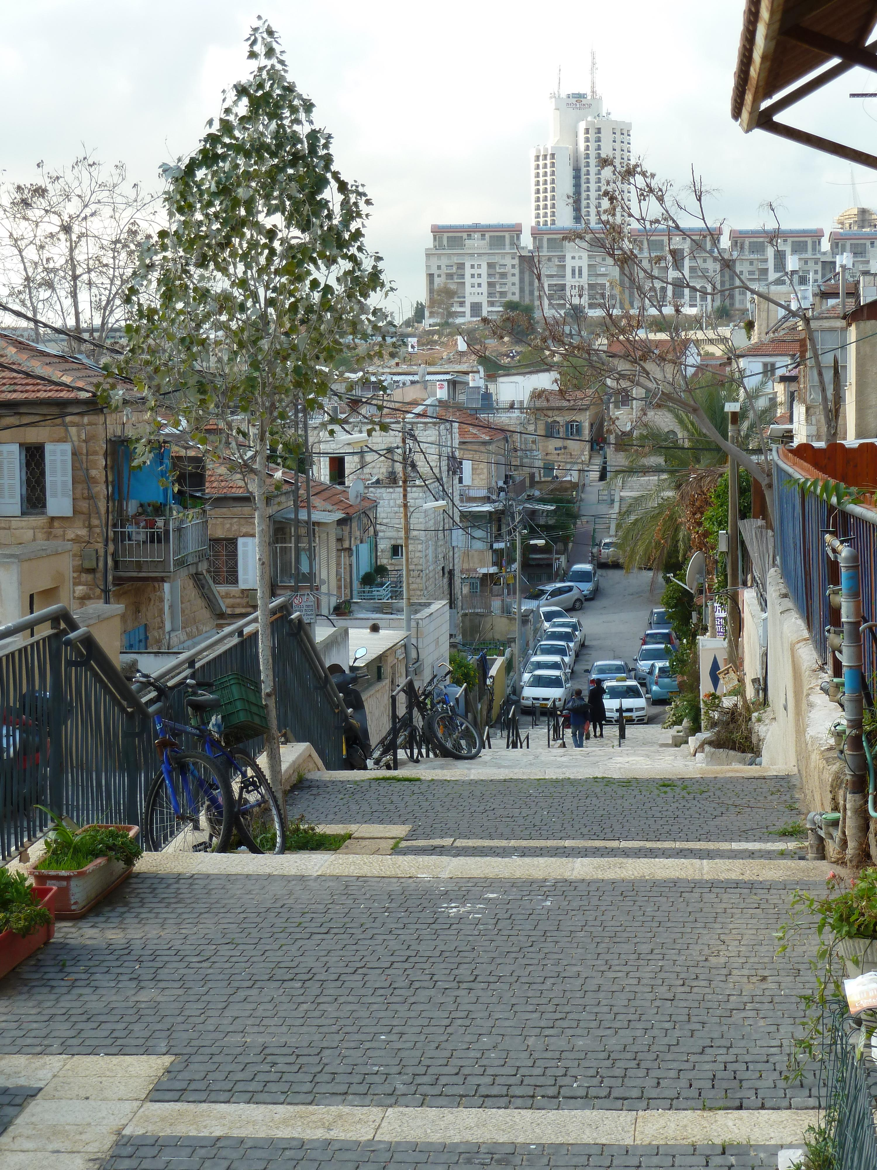 Jerusalem Stairs street